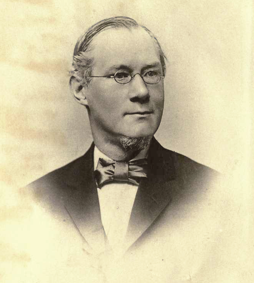 Portrait of George Washington Tryon (1838-1888)